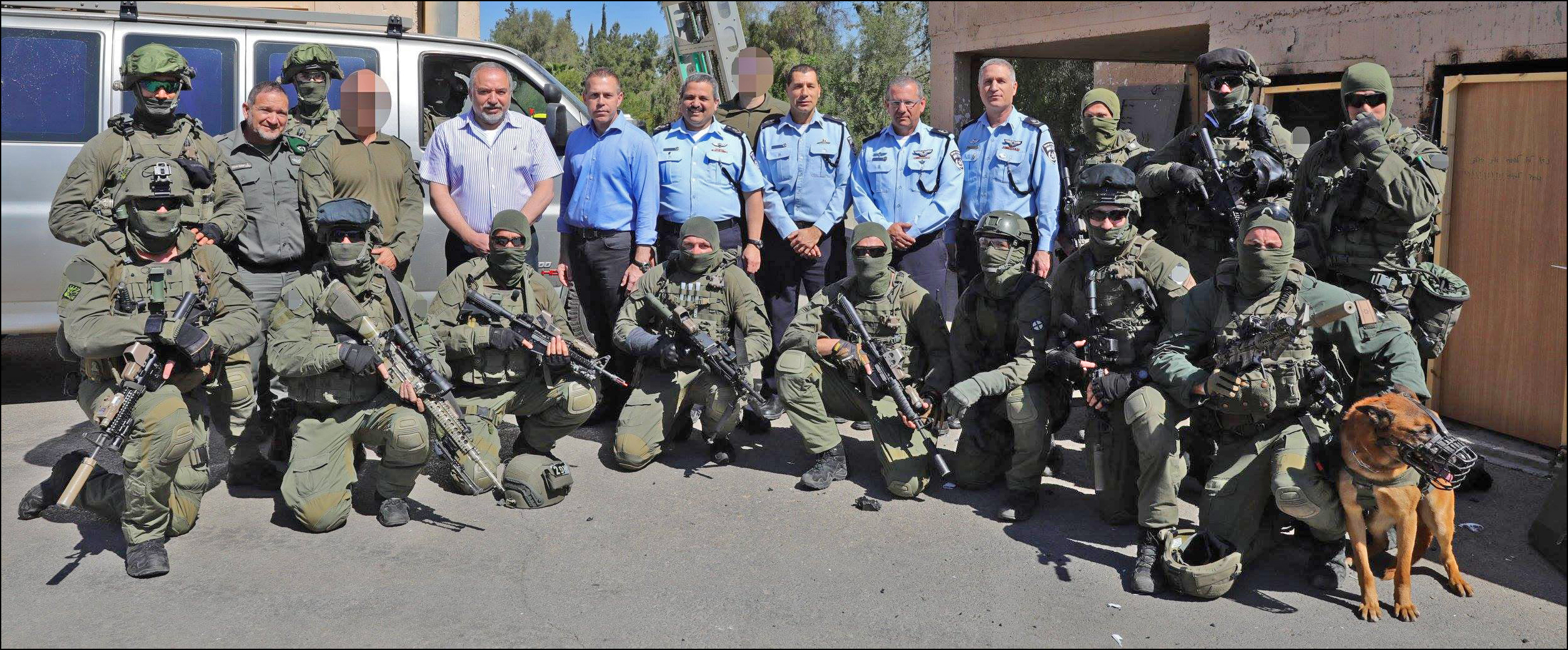 YAMAM - Israeli elite counter-terrorism unit